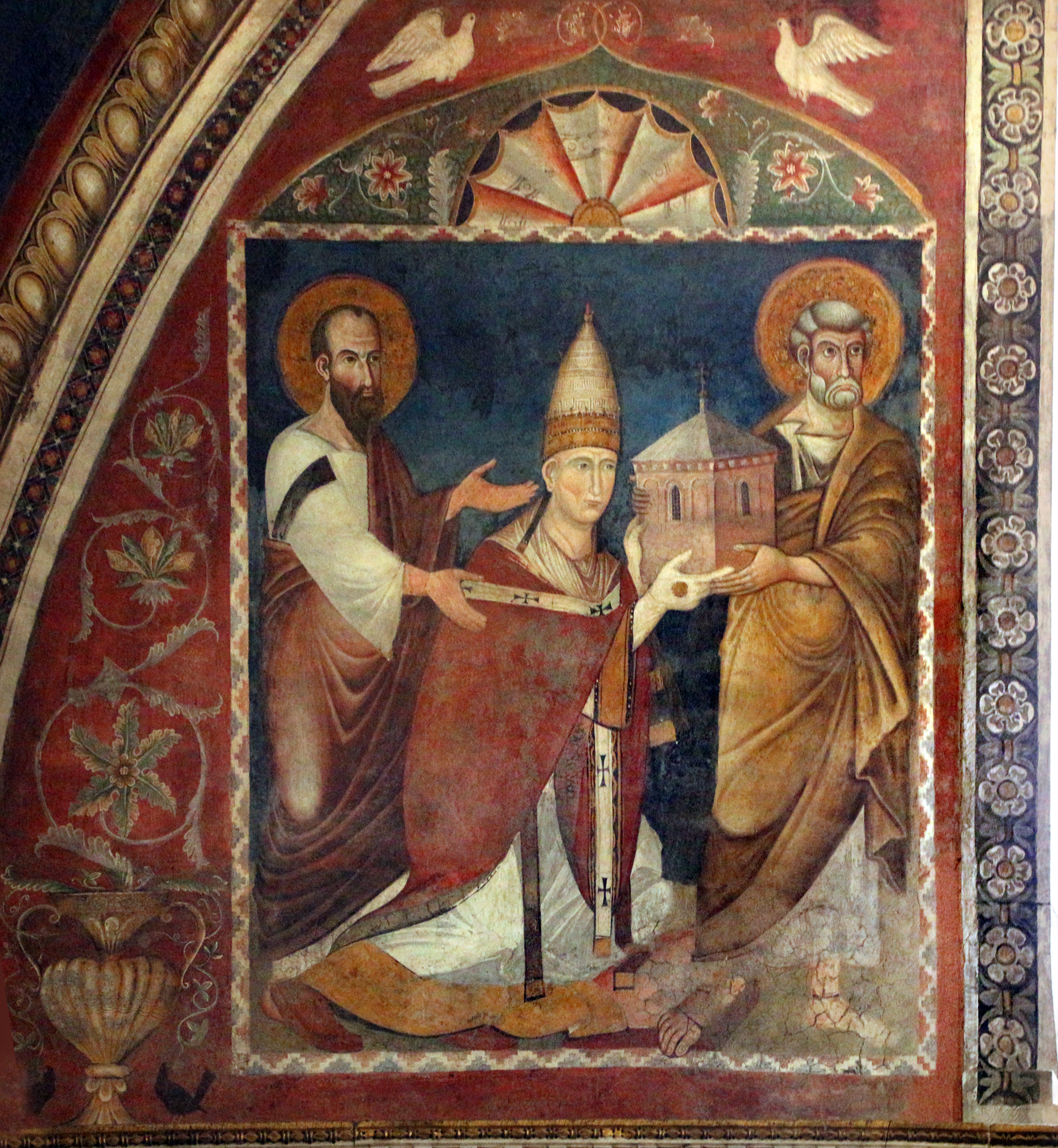 Sancta Sanctorum (Rome) - 13th-century frescos